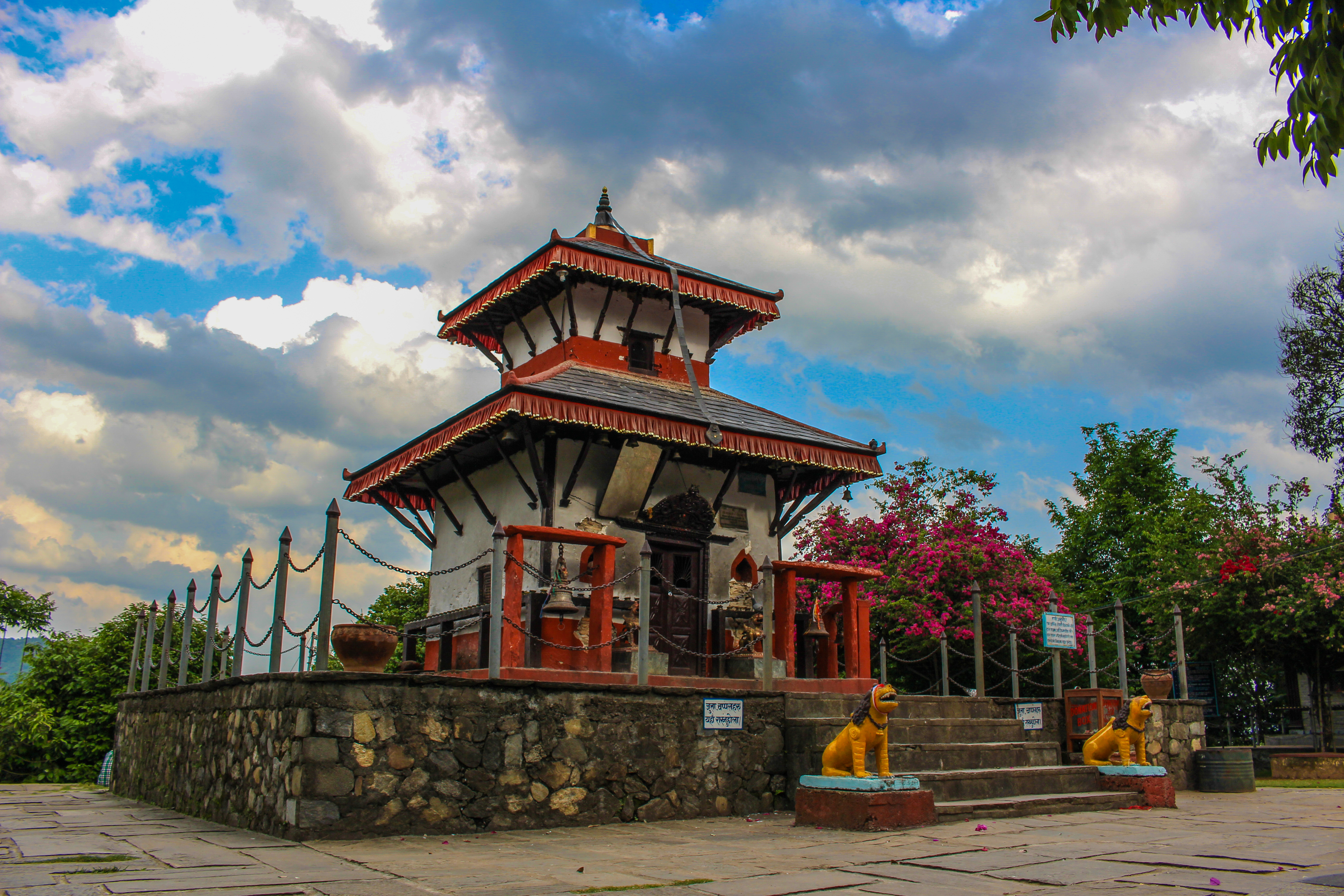 Bhadrakali Temple situated in the city of Pokharaनेपाली: भद्रकाली मन्दिर, पोखरा